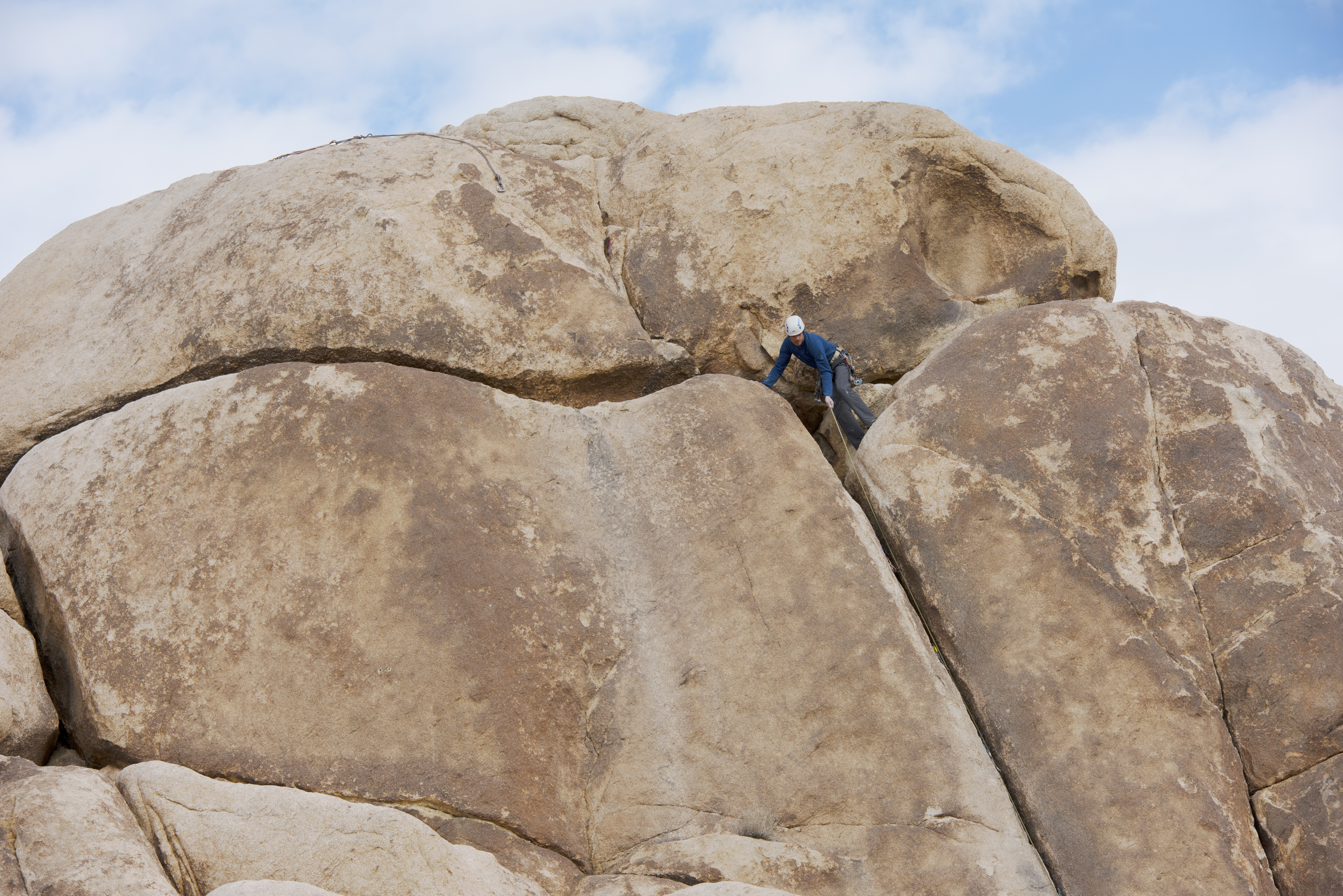 Climbing in Joshua Tree National Park